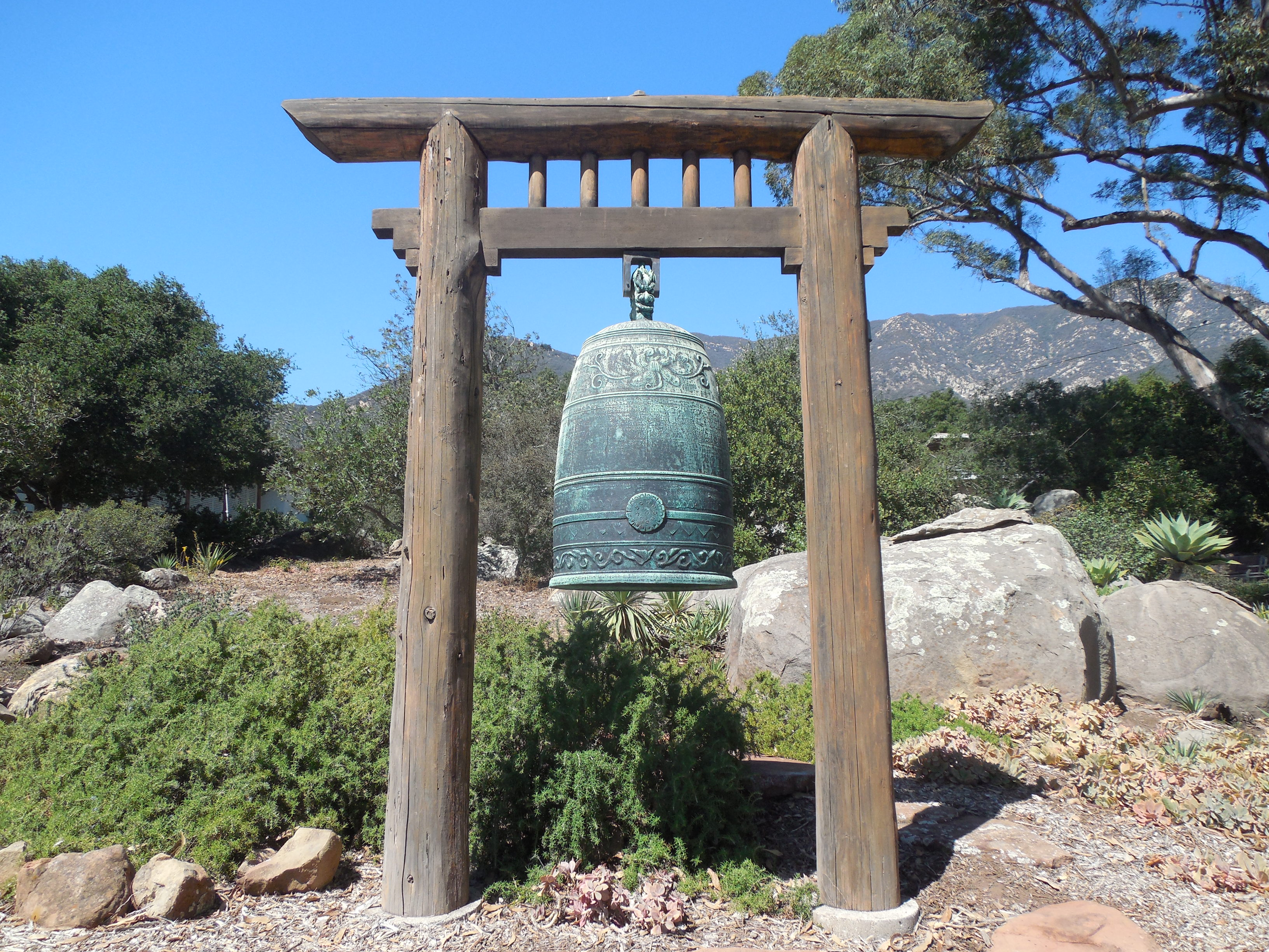 Santa Barbara Vedanta Temple bell, Sep 2014. The bell is 12th century Japanese-cast and was purportedly used onboard a Chinese military ship. Today, it is rung three times per day on the temple grounds.